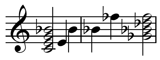 Tritone substitution common tones. Created by Hyacinth (talk) 14:57, 13 December 2010 using Sibelius 5.